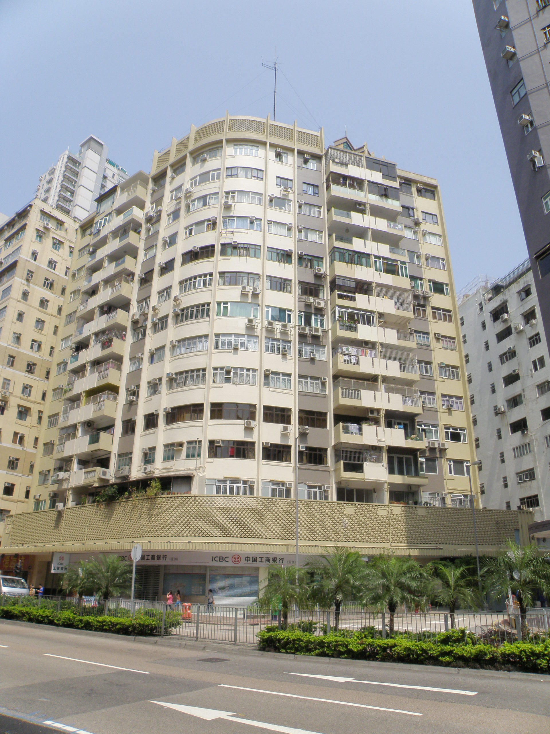 Tsan Yung Mansion in Ho Man Tin, Hong Kong.